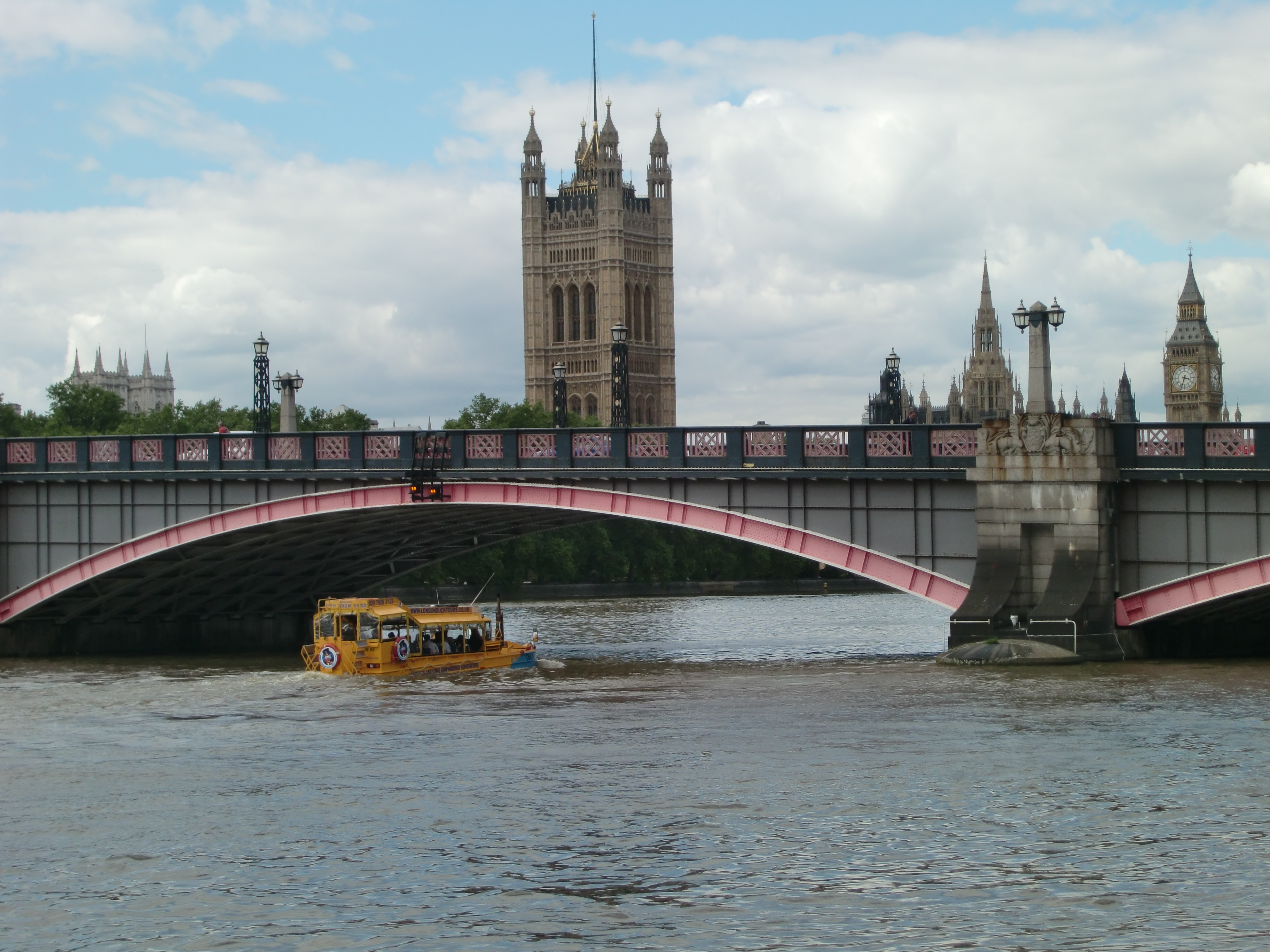 DUKW under Lambeth Bridge. Westminster Abey and the Houses of Parliament are partially visible in background